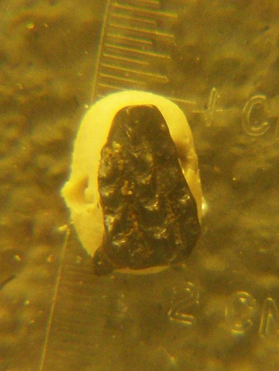 Fossil of Meniscoessus, an extinct mammal. Took the photo at Naturalis museum, Leiden